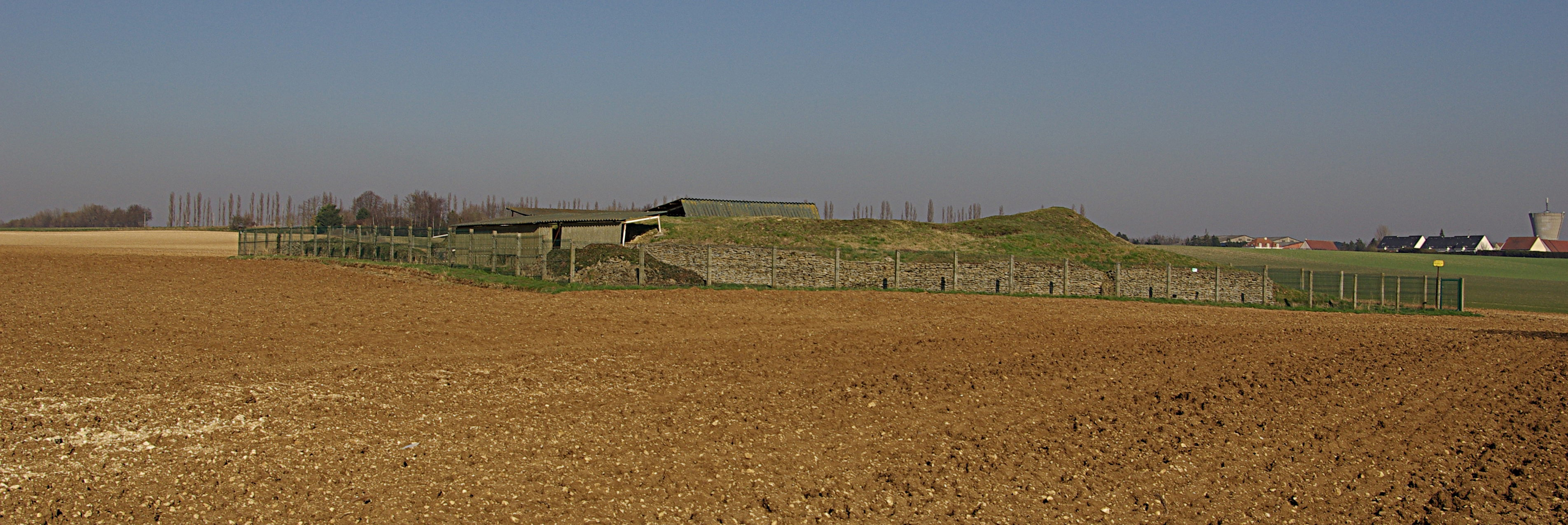 Tumulus of Fontenay-le-Marmion in Calvados (14), France